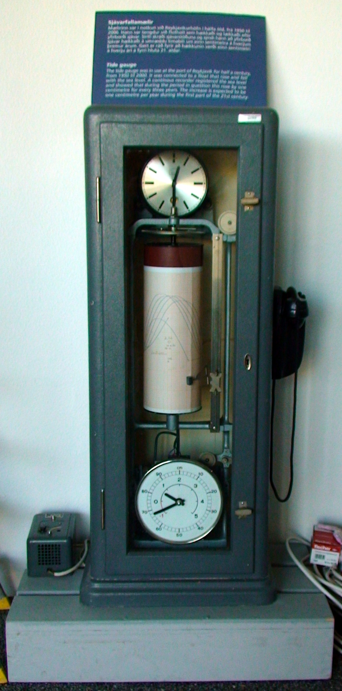 Tide gauge, at Reykjavik, Iceland